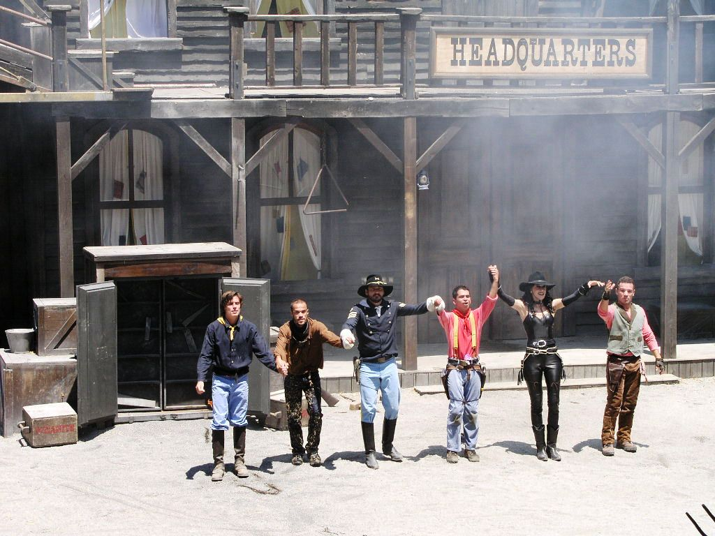 Picture of the actors of Fort Frenzee Show (Port Aventura Park)